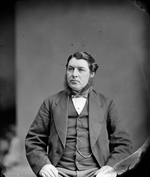 Sir Charles Tupper